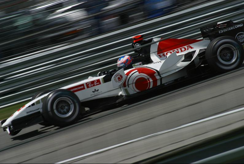 Jenson Button driving for British American Racing at the 2005 United States Grand Prix.